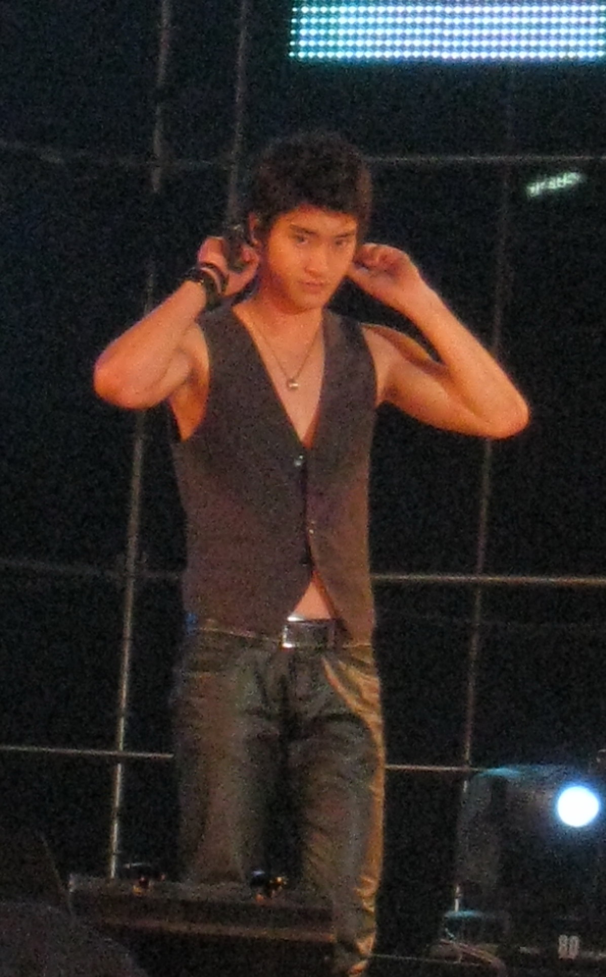 Choi Siwon perform at SMTOWN Live in Bangkok